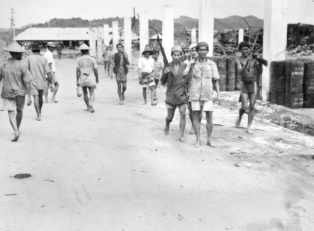 NATIVE DYAKS FROM THE MAINLAND OF BORNEO, WALKING ALONG A BRUNEI STREET, ARMED WITH JAPANESE RIFLES. THEY ARE ON THEIR WAY BACK TO THEIR VILLAGES IN THE HILLS. (IMAGE LOCATION: BRUNEI, BRITISH BORNEO)